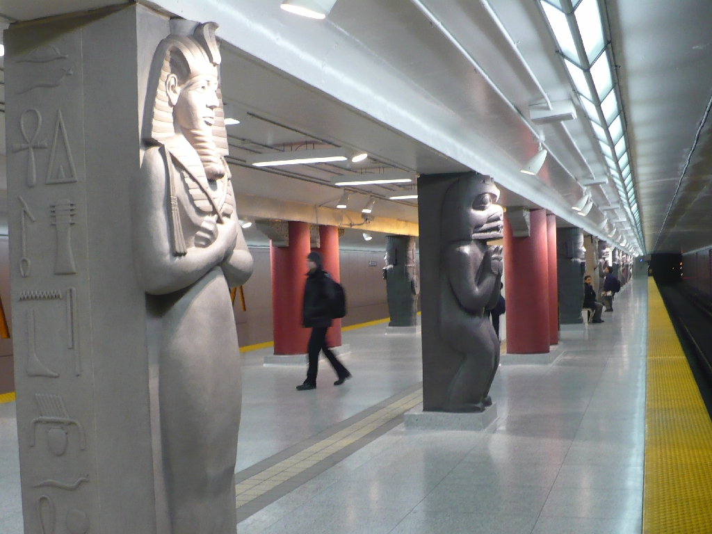 Makeover of the Museum subway station in Toronto